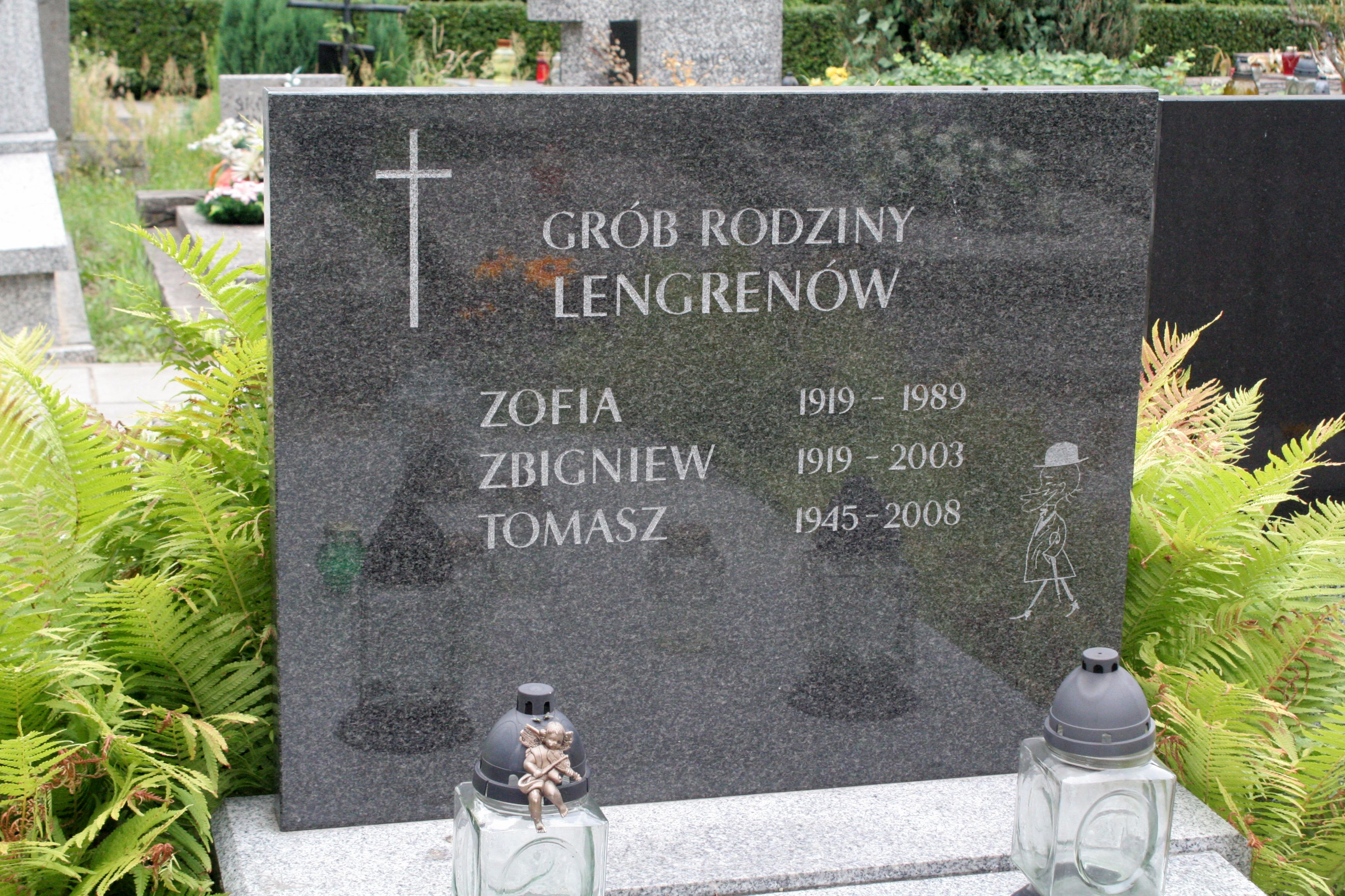 Grave of Zofia, Zbigniew and Tomasz Lengren at Warsaw Military Cemetery in Warsaw.